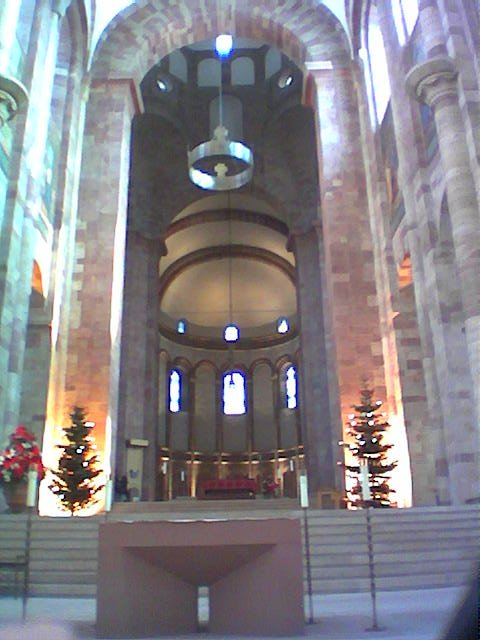 Interior of Speyer Cathedral.